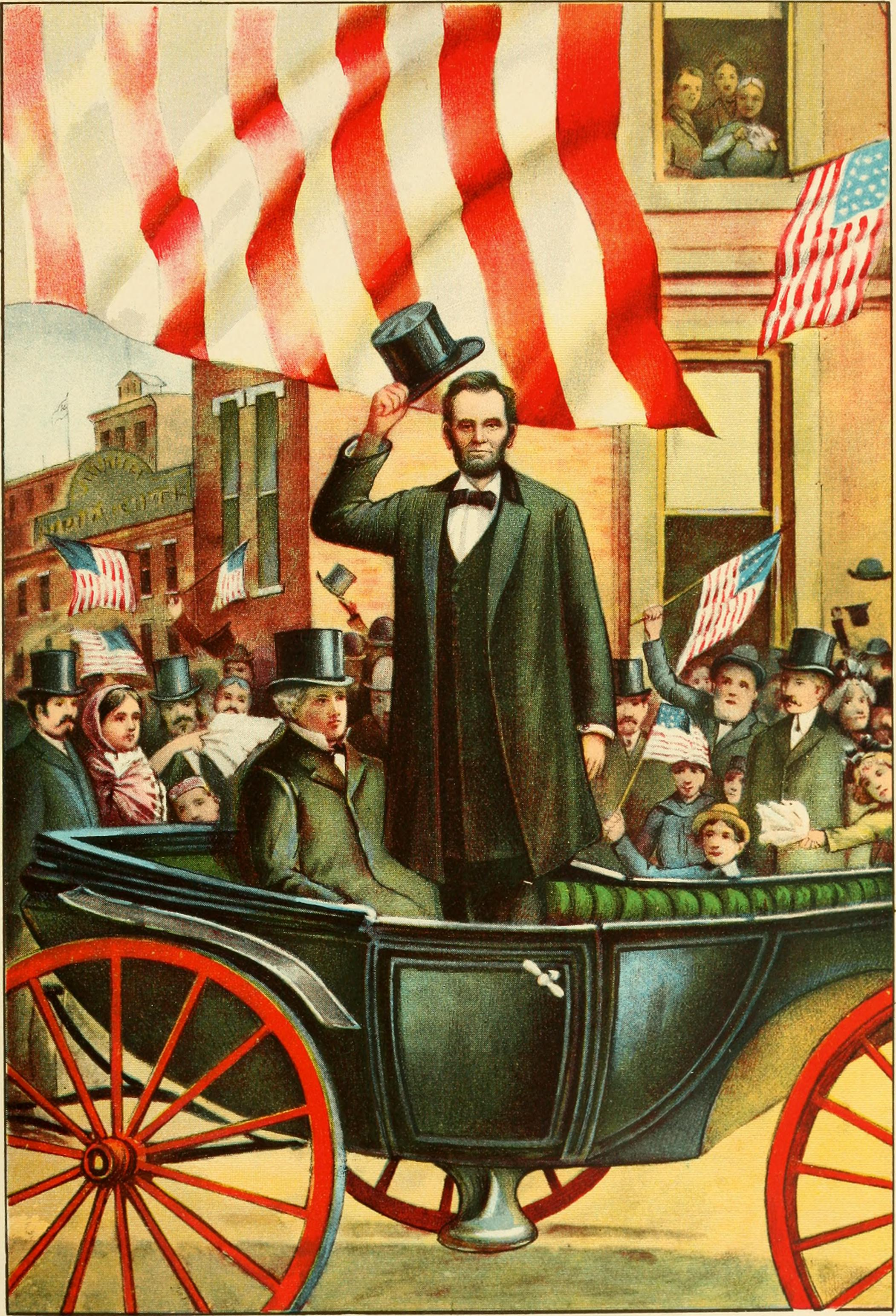 President Abraham Lincoln on Inauguration Day, March 4th, 1861 Title: The story of our nation, from the earliest discoveries to the present time ... together with a graphic account of Porto Rico, Cuba, Hawaii and the Philippine islands .. Year: 1902 (1900s) Authors: Stratton, Ella (Hines), Mrs. (from old catalog) Subjects: Publisher: Philadelphia, National publishing co Text Appearing Before Image: JEFFERSON DAVIS. Text Appearing After Image: PRESIDENT LINCOLN ON INAUGURATION DAY, MARCH 4th, 1861. SEMINOLE AND MEXICAN WARS. 241 were employed, and, for brilliancy of execution, its campaigns wereequal to those of Napoleon and Frederick, observed Mamma Nelson. Father says it was the worst war that ever was ! cried Bennie. War is an evil at best, my boy, but after years show good resultingfrom it. This one was needed to develop the strength of the country